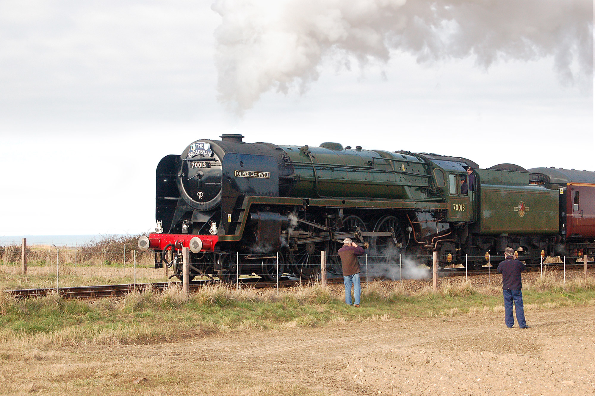 Preserved British Railways Standard Class 7MT lcomotive number 70013 Oliver Cromwell approaching Weybourne on the North Norfolk Railway on 11 March 2010 to celebrate re-connection of the NNR to the national railway network.